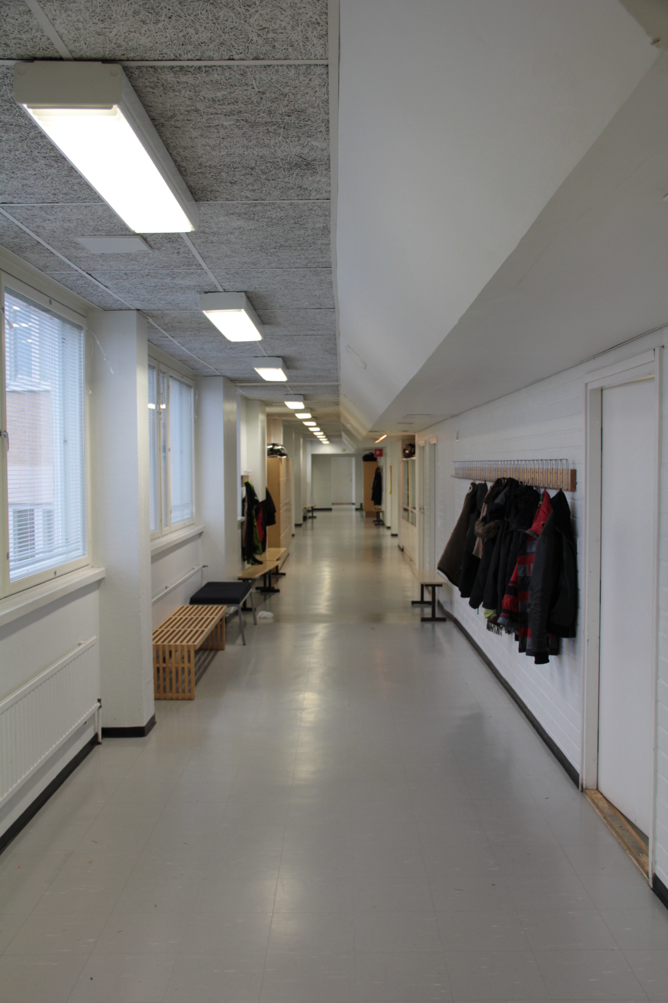 Corridor of Haukilahti School in Espoo, Finland